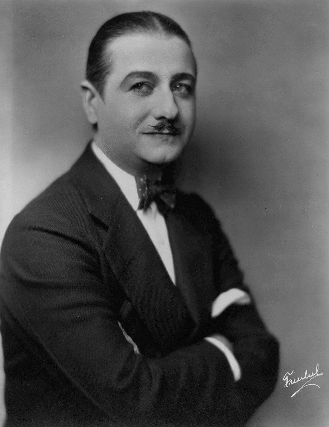 Photo of actor Neely Edwards. The item has no copyright markings on it as can be seen in the links above.